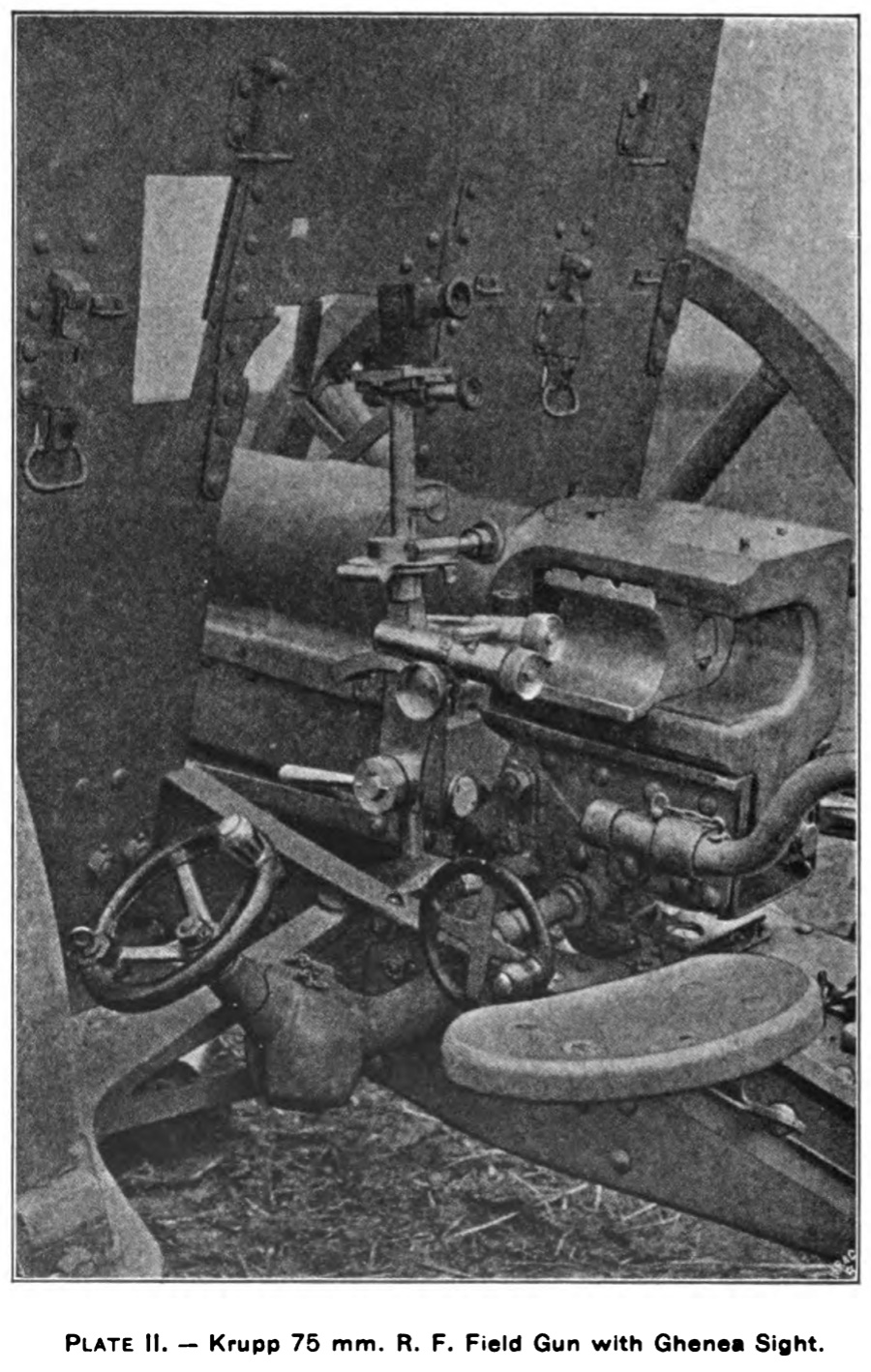 7.5 cm Krupp Model 1903 field gun of the Royal Romanian Army (fitted with Romanian Ghenea gun sight)